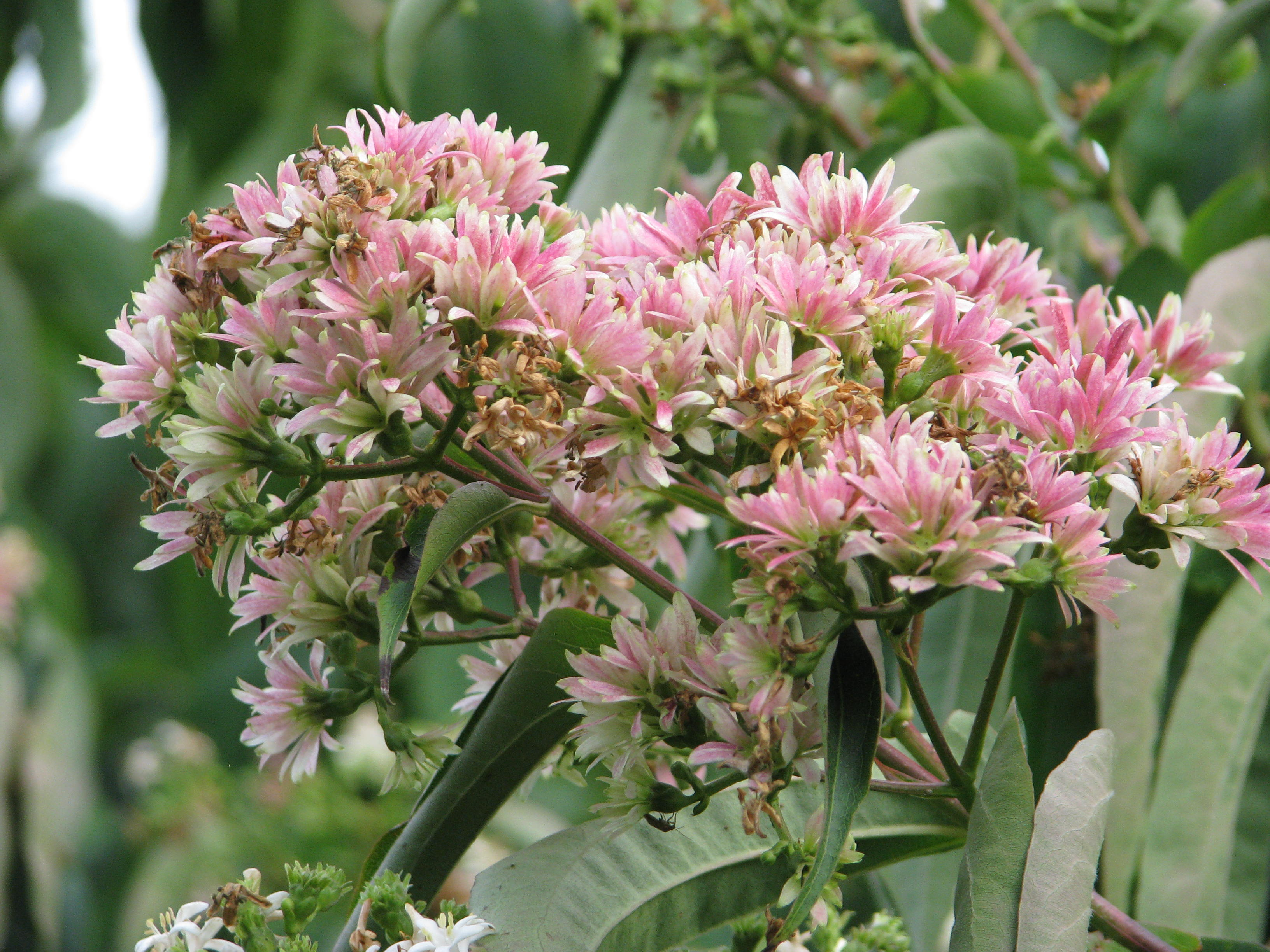 the calyces turn pink after fertilisation - some seeds developing in there methinks